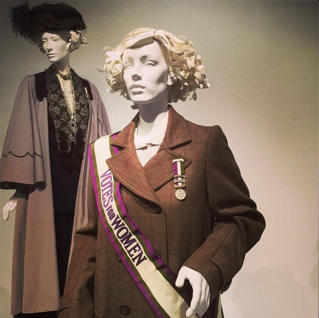 Costumes from the film Suffragette displayed at the exhibition 24th Annual Art of Motion Picture Costume Design at FIDM Museum, Los Angeles, CA. On the background: costume worn by Meryl Streep during the public speech scene. On the foreground: costume worn by Helena Bonham Carter during the scene of the protest outside the Parliament.